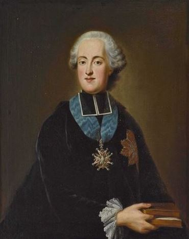 Portrait of Prince Clemens Wenceslaus of Saxony (1739-1812)), prince-archbishop elector of Trier